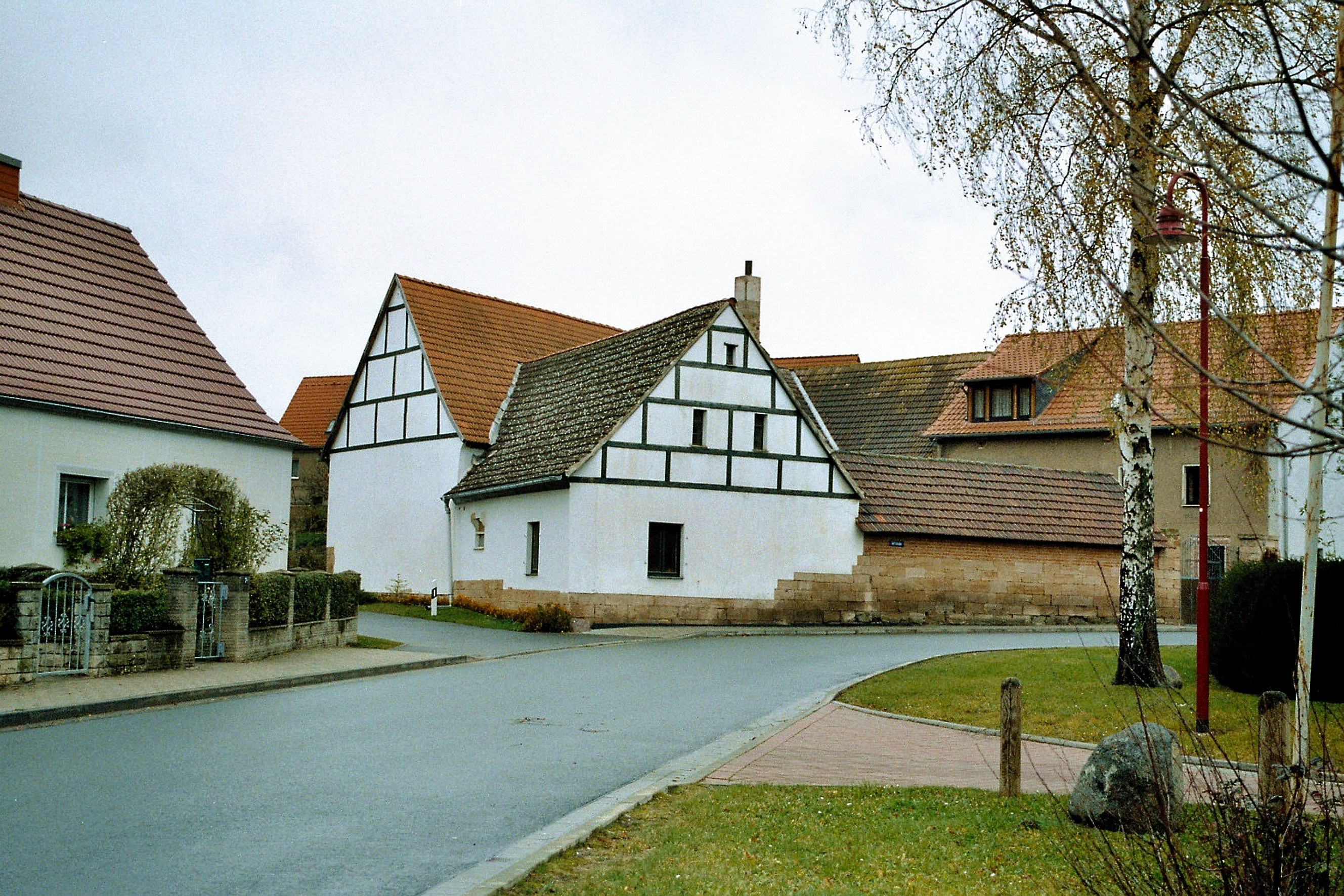 Wippach (Bad Bibra), the village street